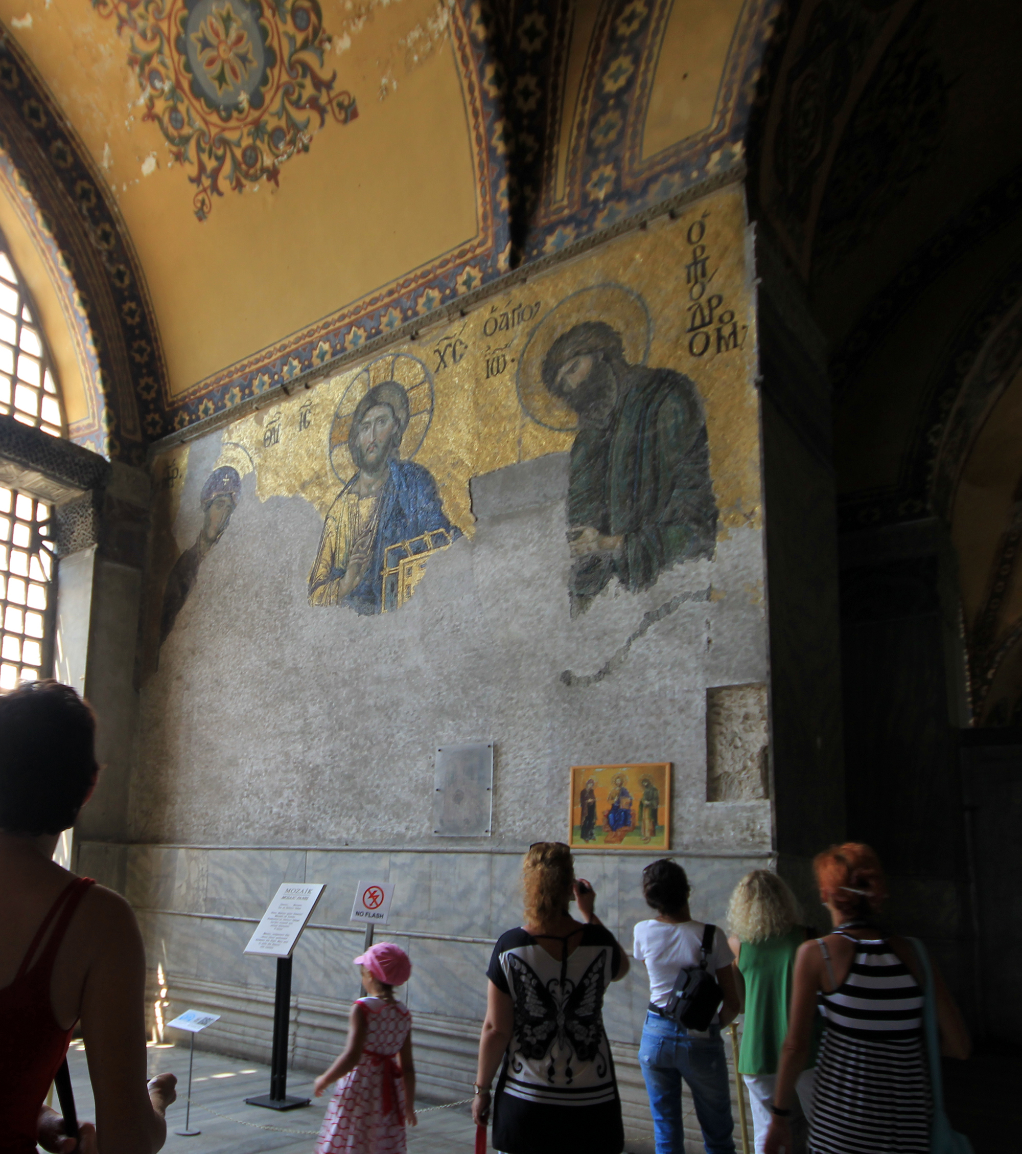 Paintings in the interior of mosque Hagia Sophia in Istanbul , Turkey Česky: Malby (fresky) v interiéru mešity Hagia Sofia v tureckém Istanbulu